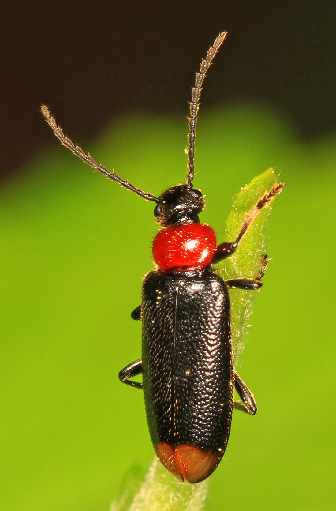 Fire-colored Beetle - Pedilus terminalis, Leesylvania State Park, Woodbridge, Virginia.